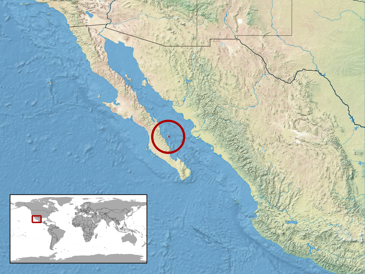 Geographic distribution of Crotalus catalinensis — Santa Catalina Island rattlesnake Crotalus catalinensis is a species of venomous pit viper endemic to Isla Santa Catalina in the Sea of Cortez/Gulf of California just off the east coast of the state of Baja California Sur, México.